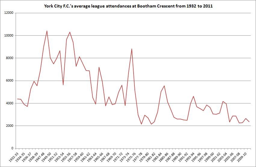 A graph of York City F.C.'s average league attendances at Bootham Crescent from 1932 to 2011. The averages for the seasons from 1932–33 to 2007–08 were taken from the book York City The Complete Record, the seasons from 2008–09 to 2009–10 from and the 2010–11 season from BBC match reports.